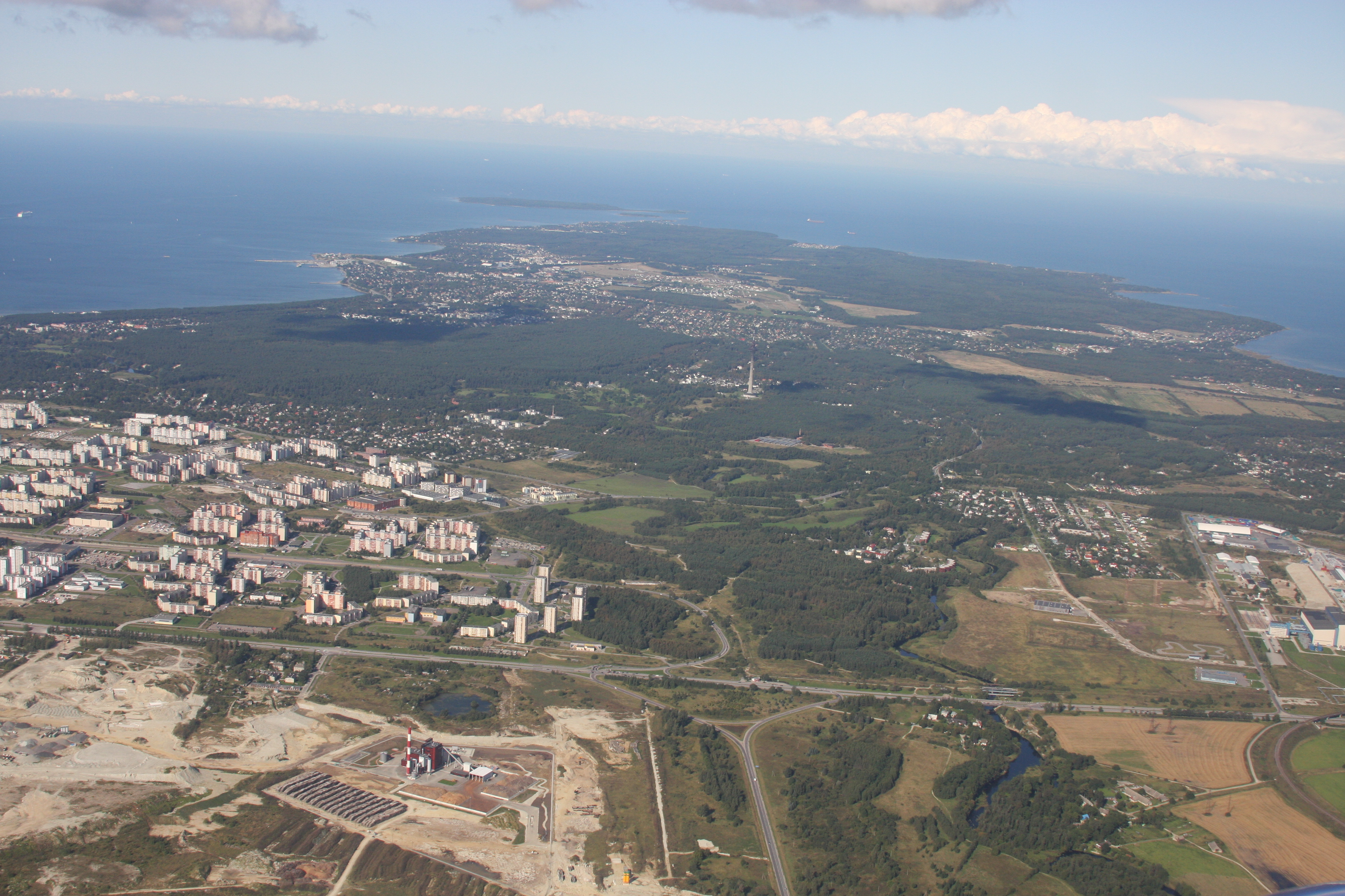 Viimsi peninsula, just east-north of Tallinn, Estonia